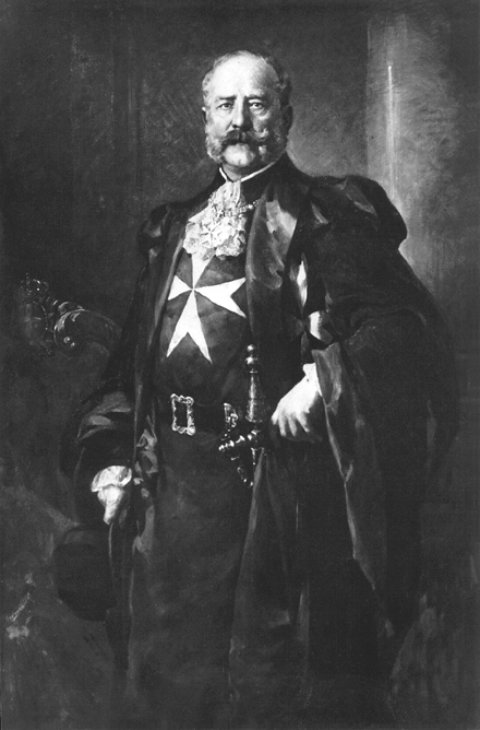 Giovanni Battista Ceschi, grand masters of the knights hospitaller.